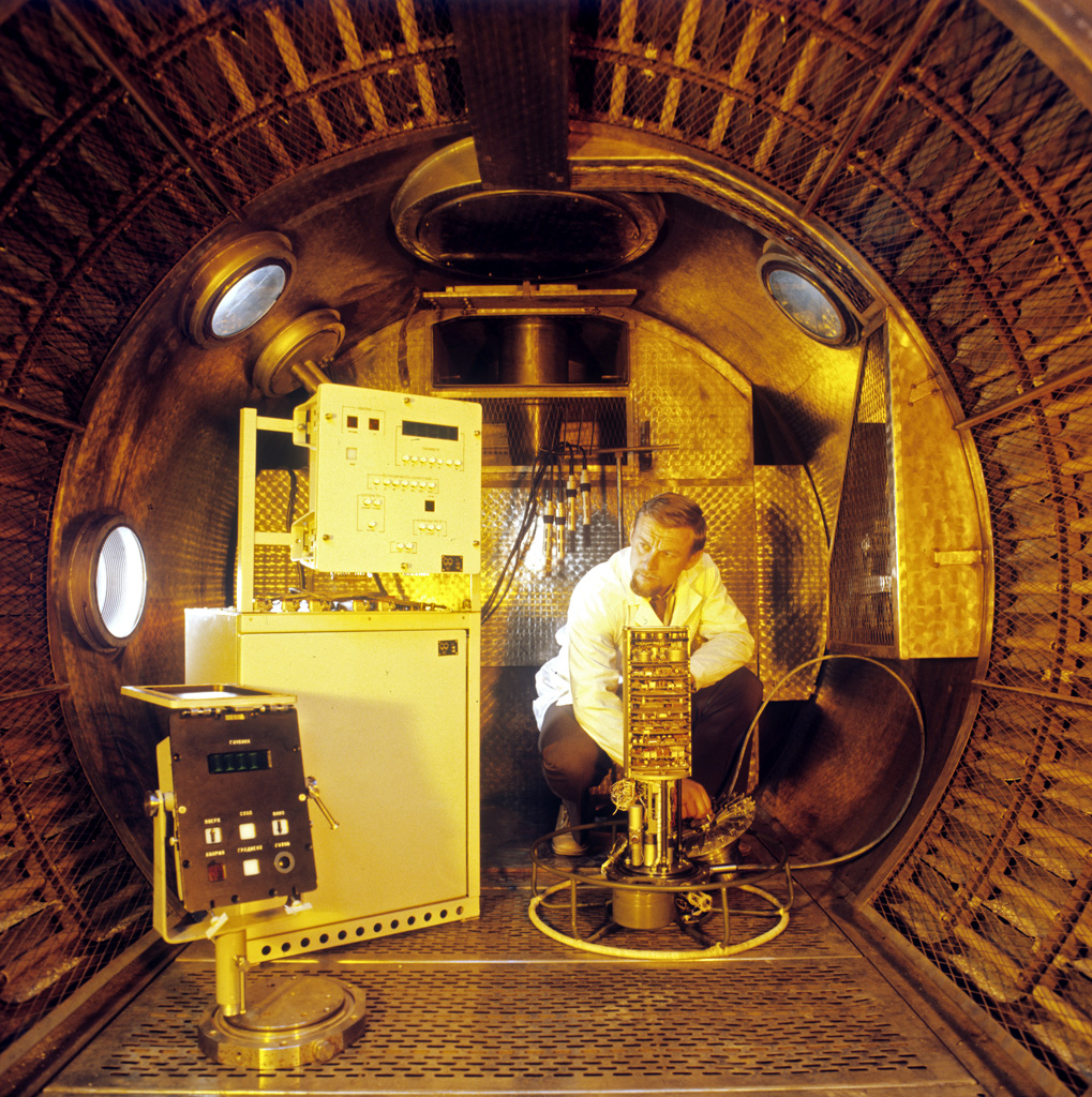 “Testing the equipment at the Institute of Experimental Meteorology”. Running the equipment tests at the Institute of Experimental Meteorology.